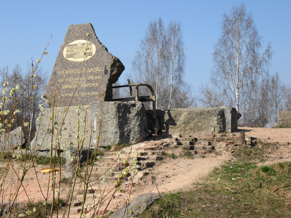 This monument is at the place of a palace in the English park of Peterhof (Russia), destroyed during WWII.